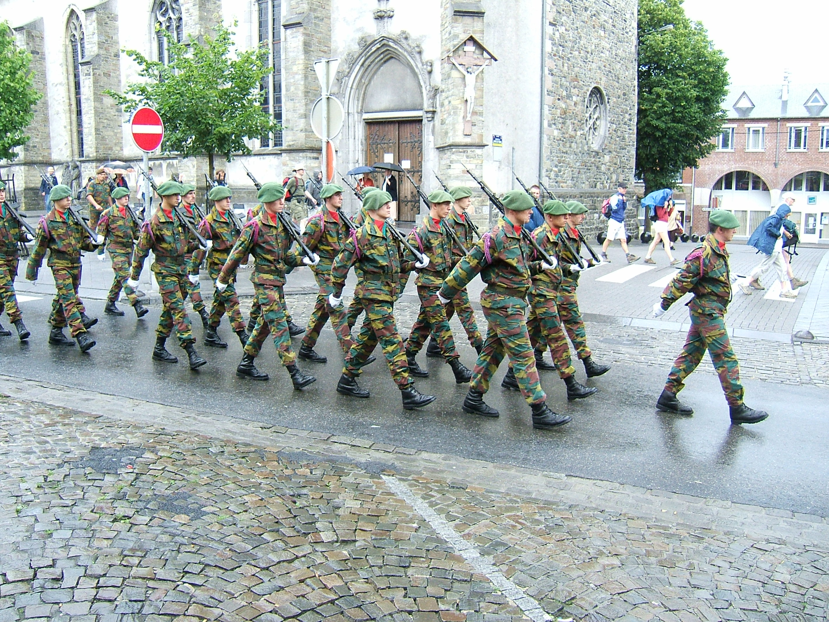 A platoon of Chasseurs Ardennais on parade in Bastogne